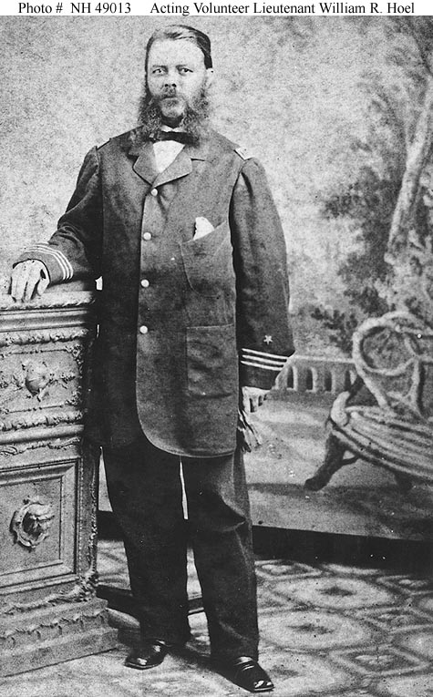 Image taken from the US Navy historical image library (